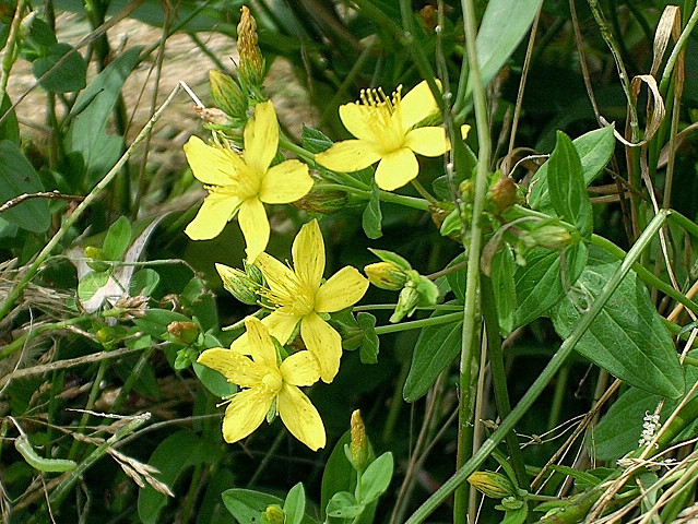 Hypericum kamtschaticum var. hondoense (Mt. Hachimantai, Iwate, Japan)